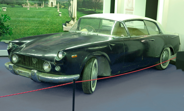 Lancia Florida I, B56 from 1955